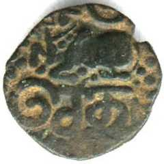 Created by me Jnumis 23:53, 26 February 2007 (UTC) This coin image has been taken from